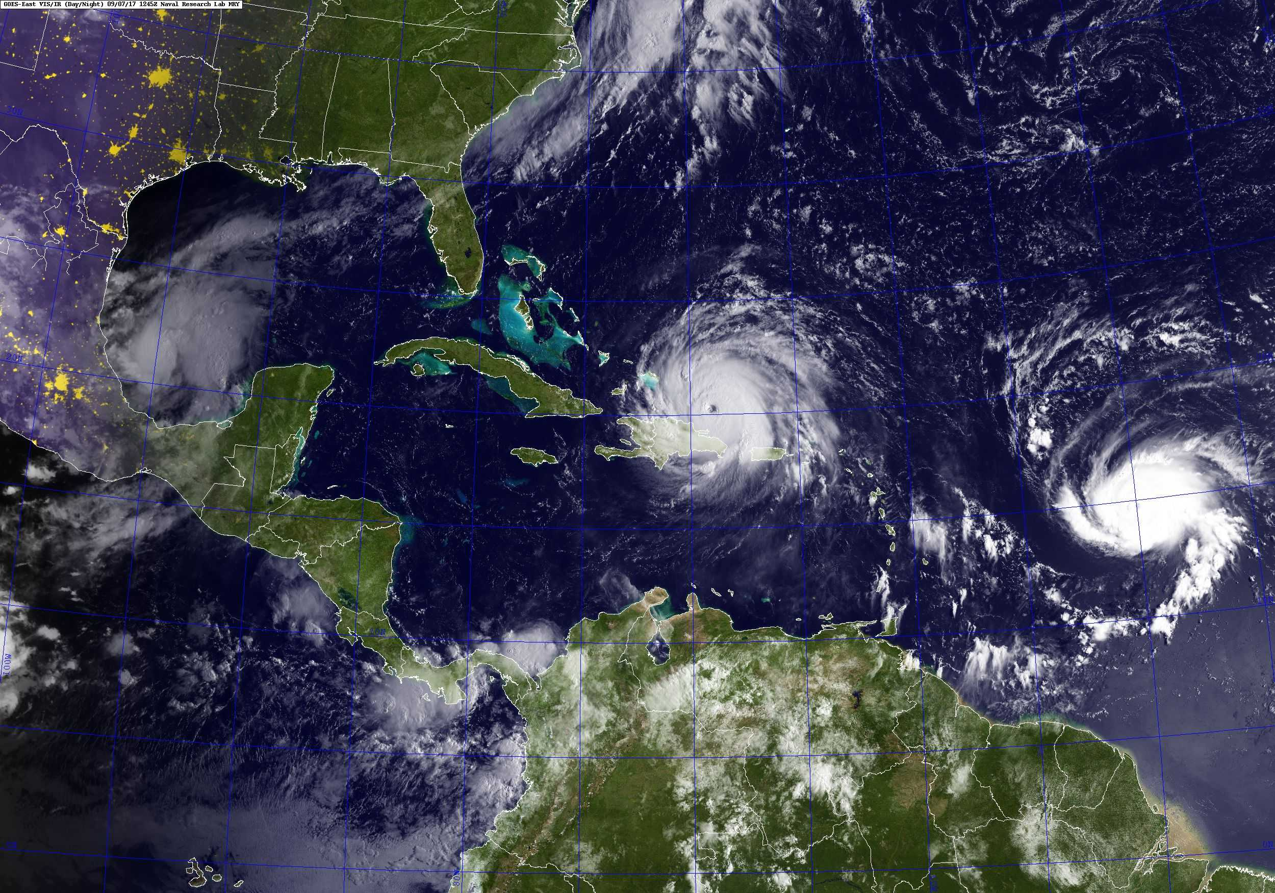 A GOES satellite image taken Sept. 7, 2017 at 8:45 a.m. EST shows Hurricane Irma, center, and Hurricane Jose, right, in the Atlantic Ocean, and Hurricane Katia in the Gulf of Mexico. Hurricane Irma is a category 5 hurricane with sustained winds of more than 180 mph and is moving west-northwest at 17 mph. The storm is expected to impact the southeastern United States.A GOES satellite image showing Hurricane Irma in the Atlantic Ocean.